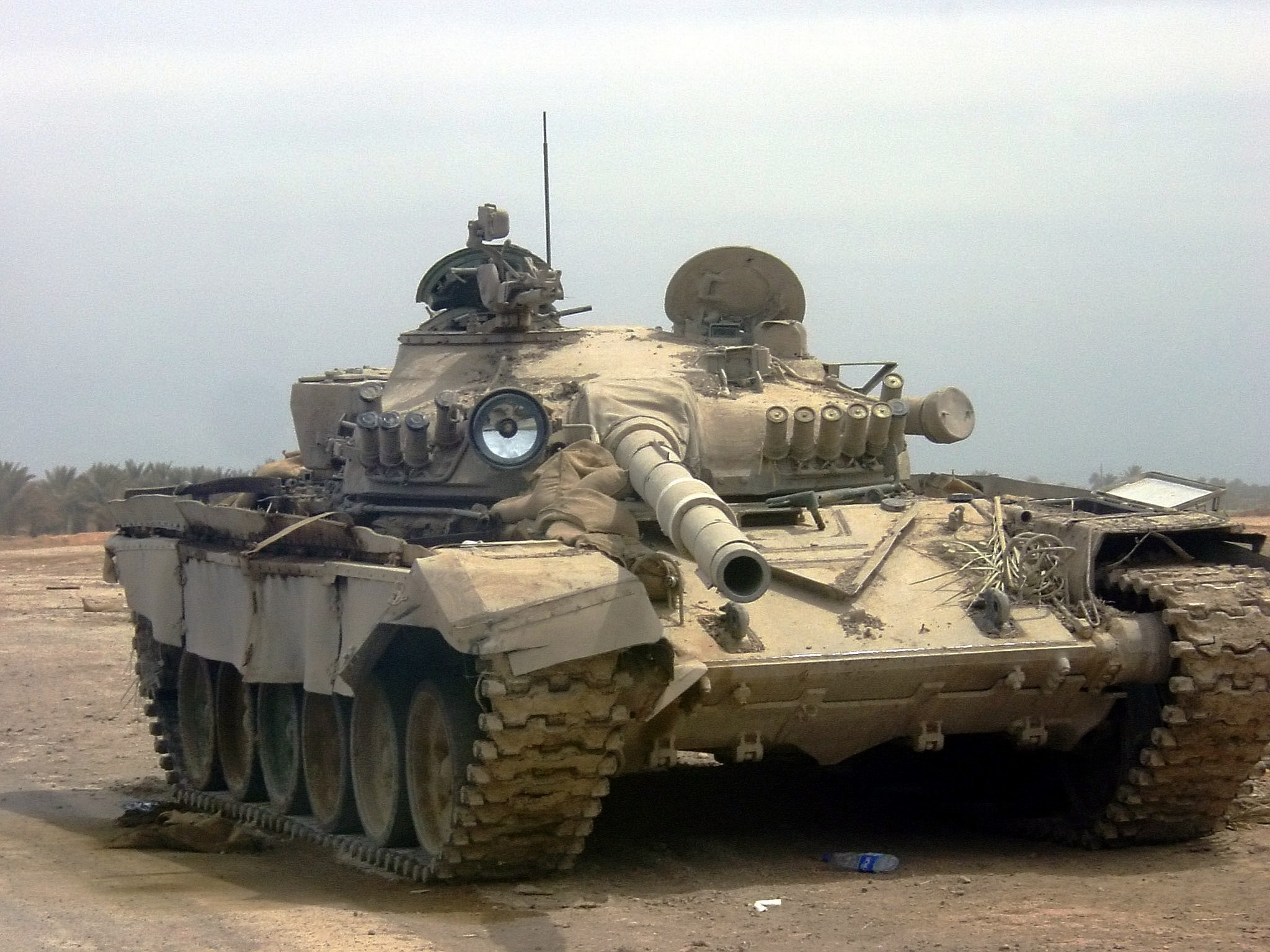 A T-72 Asad Babil abandoned almost intact on the US forces main resupply route, Iraq, 2003. Some of the tank main features, like the reinforced glacis plate and the bracket for the electro-optical countermeasures pod (removed) are clearly visible in this photograph.